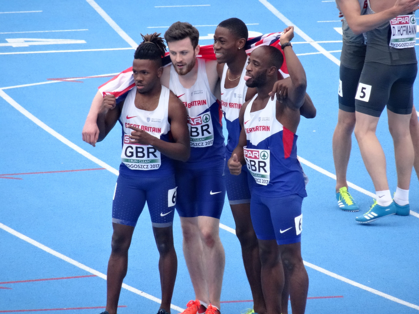 2017 European Athletics U23 Championships, 4x100m relay men final